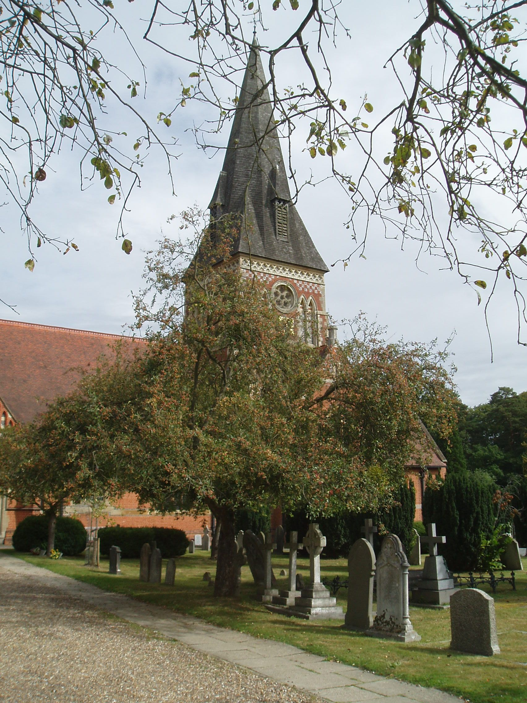 England, Berkshire, Sunningdale. The Church.